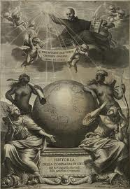 frontispiece